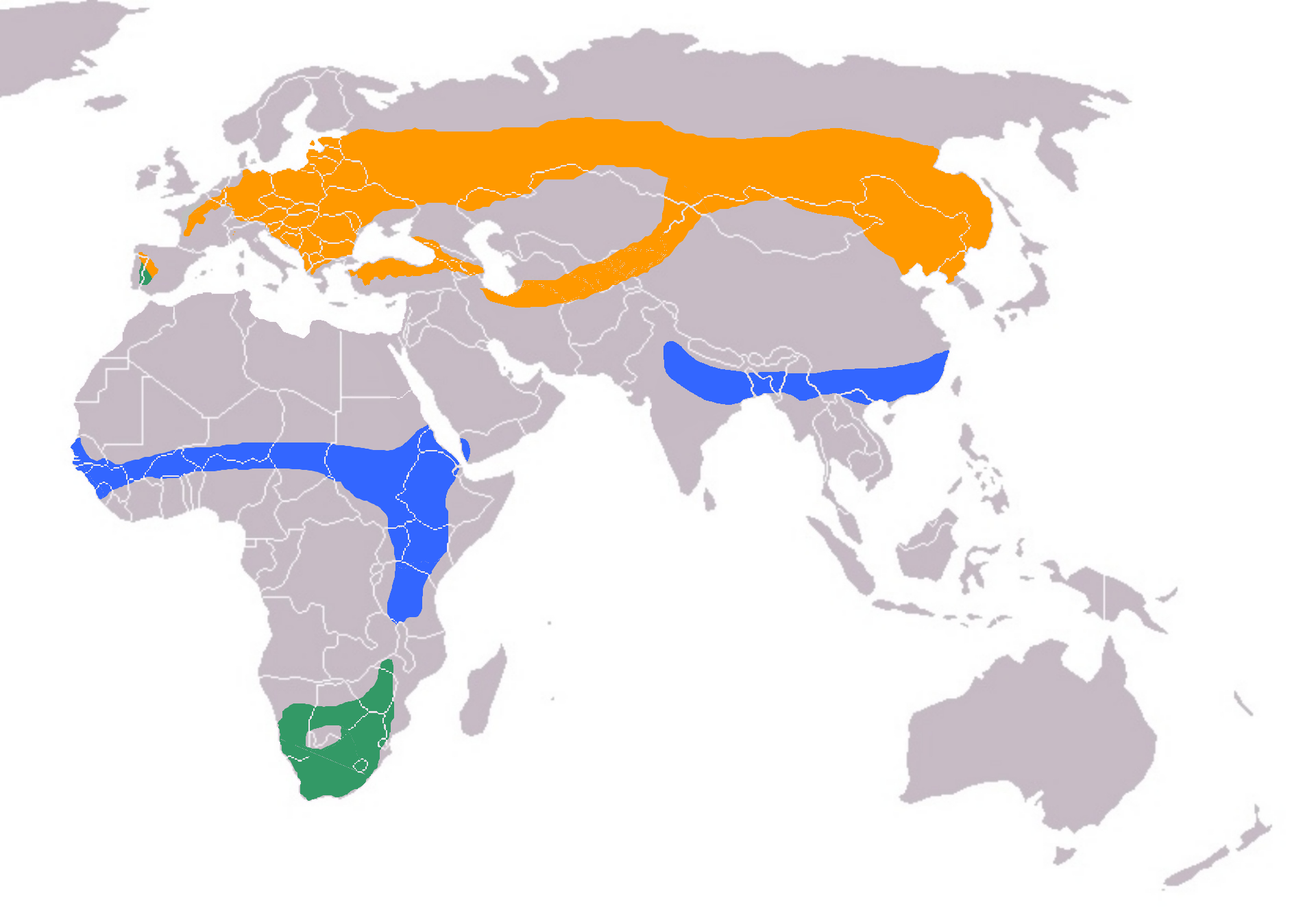 Global distribution and migration of the black stork (Ciconia nigra).